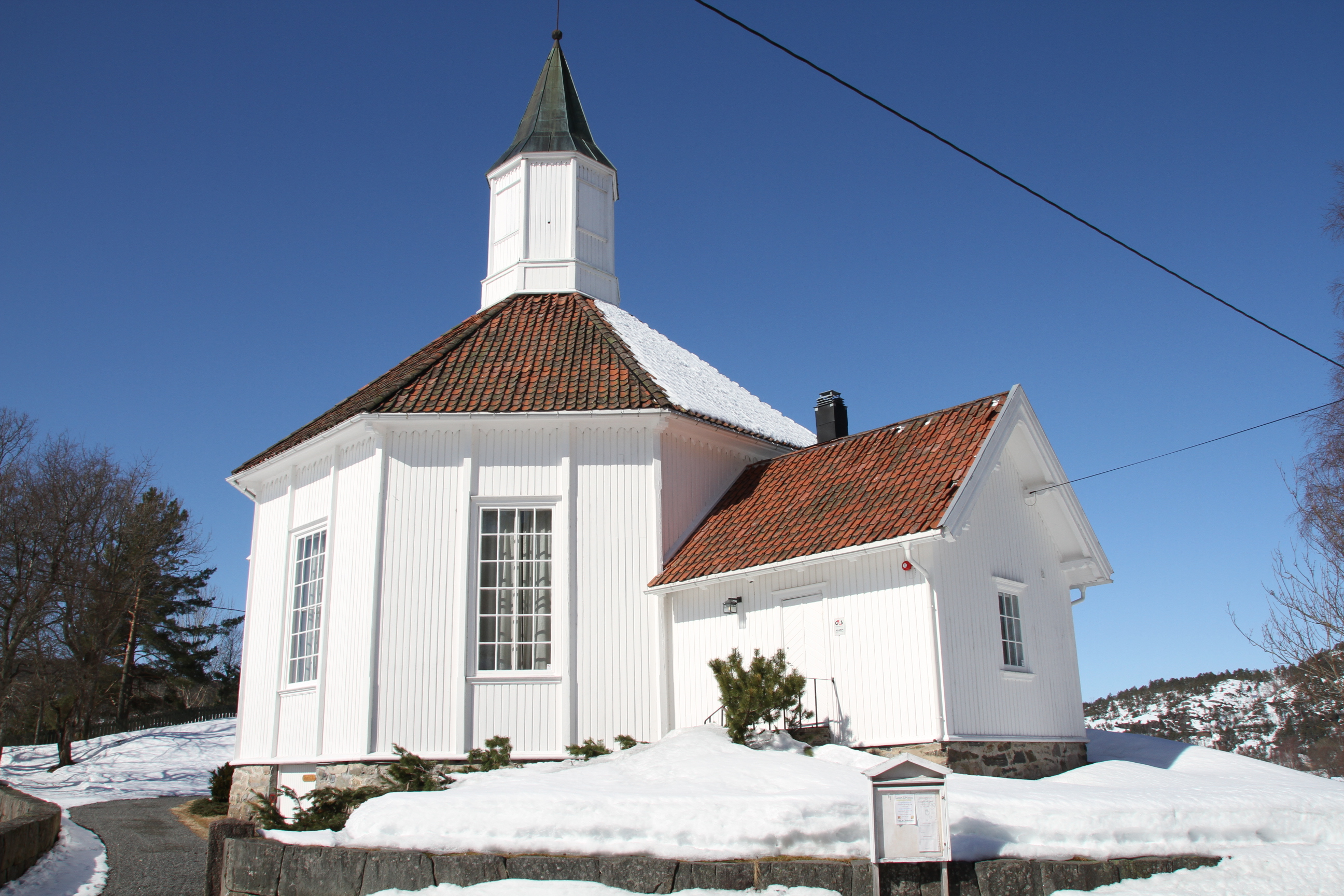 Herefoss kirke is the main (lutheran) chirch of the former Herefoss municipality, northern Birkenes municipality of the Aust-Agder county, Norway